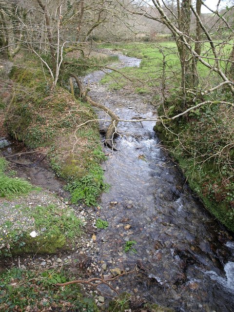 River Allen Looking up the little stream, scarcely a river here, from Trewen Bridge.